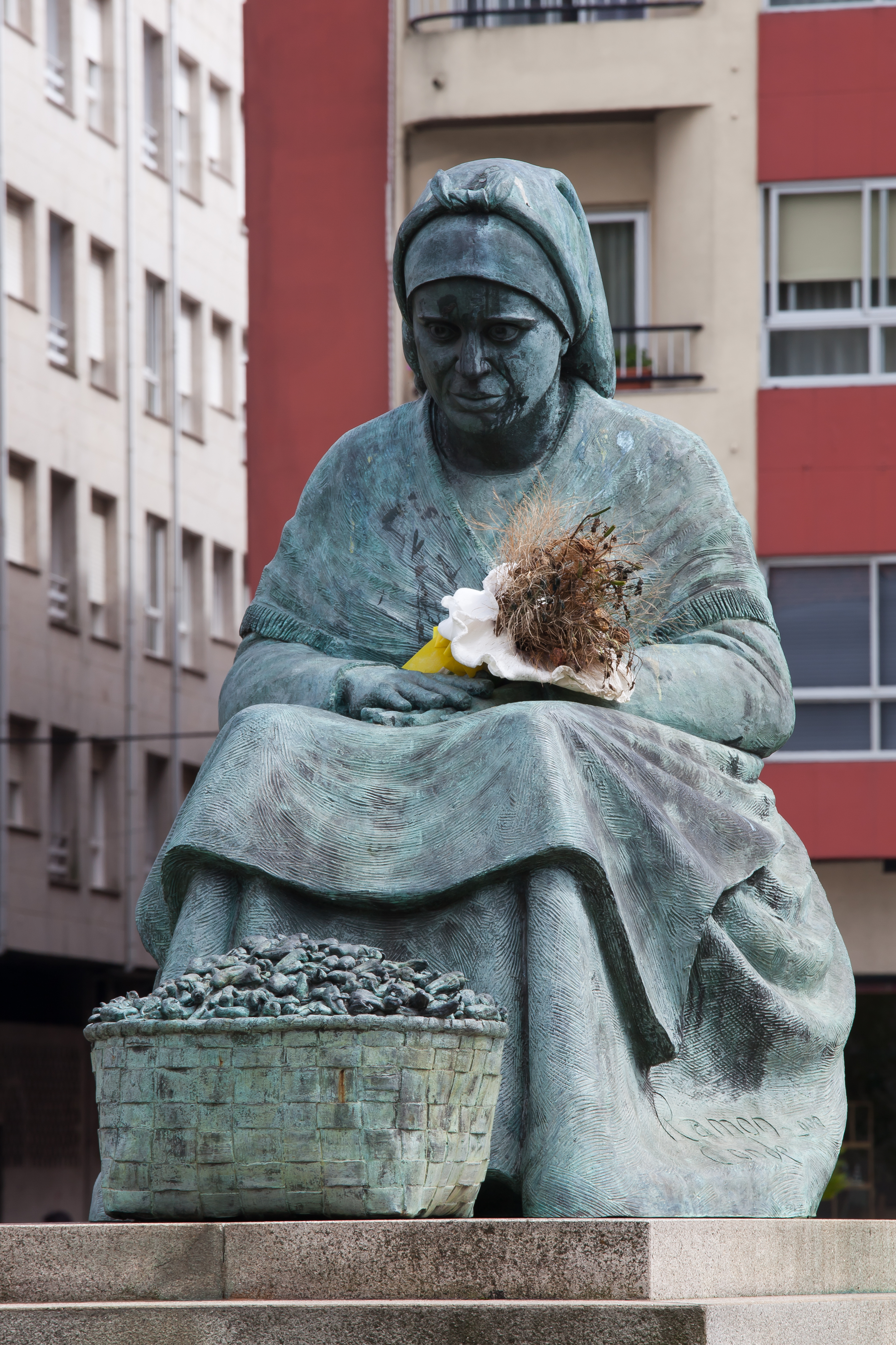 Sculpture by Ramon Conde, Padrón, Galicia (Spain)